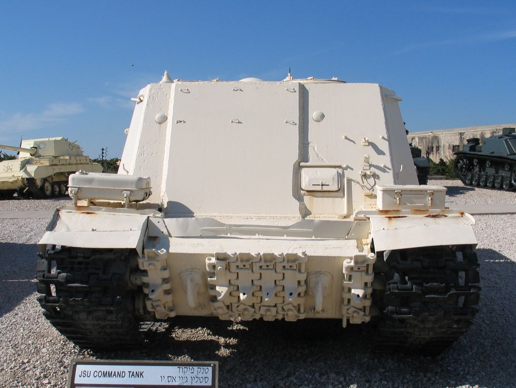 Description: ISU-122/152 with gun removed in Yad la-Shiryon Museum, Israel. Labeled as command vehicle. Possibly ISU-T tractor. Source: Photo by me, User:Bukvoed.